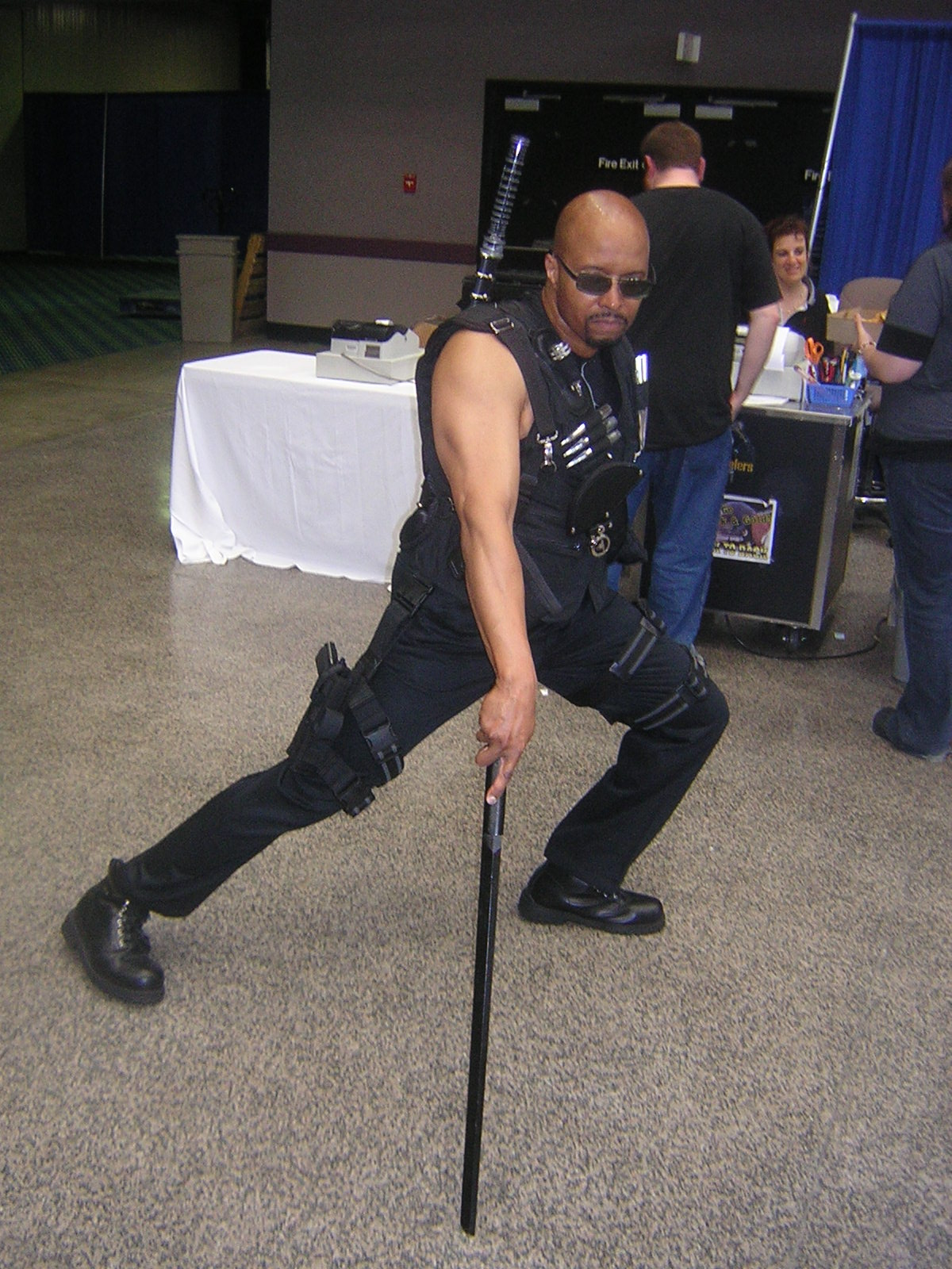 Costume based on the Blade film series. At the 2008 Pittsburgh Comicon. Really great costume, my pic here doesn't show the detail. Check out his stream below for more pics of him in action, i.e. beating up nerds at comicons.